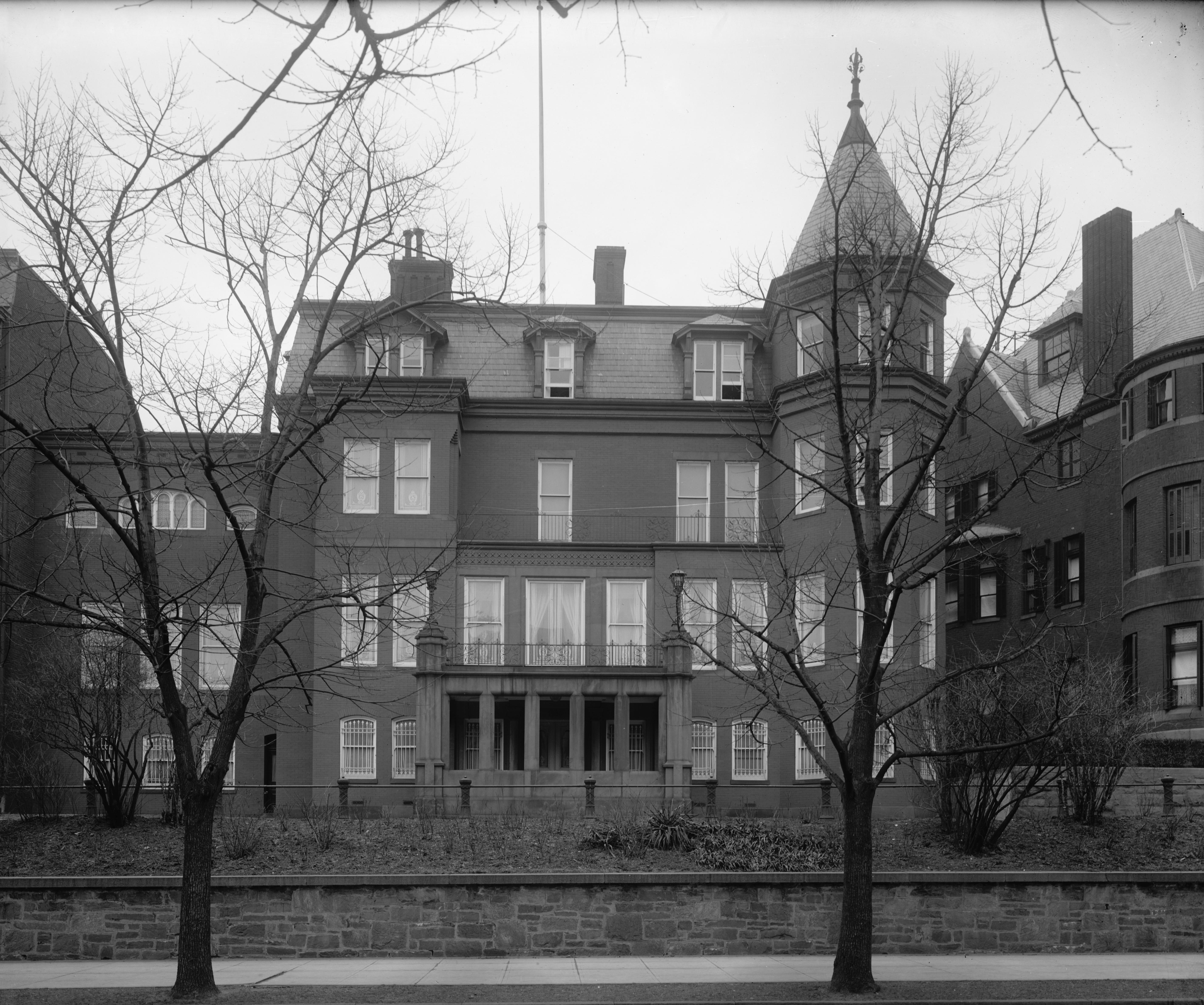 The German embassy's former location in Washington, D.C.